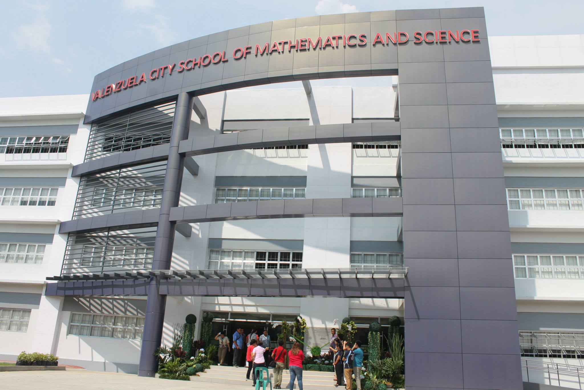 Picture of Valenzuela City School of Mathematics and Science